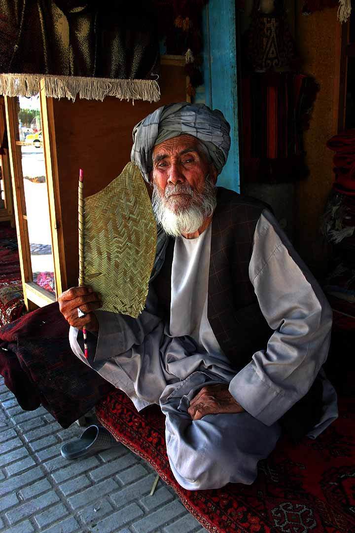 Carpet seller in Mazar-e-Sharif, Afghanistan. Canon EOS Digital Rebel / 18-55mm Canon lens